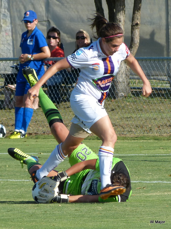 Rosie Sutton (Perth Glory Women), 12 January 2014, AJ Kelly Fields